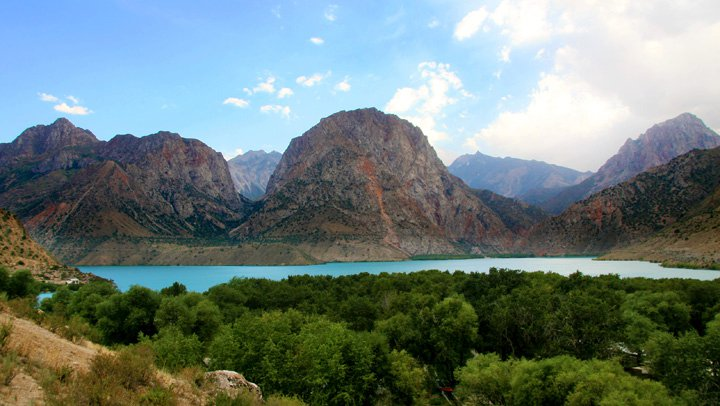 Iskandarkul lake